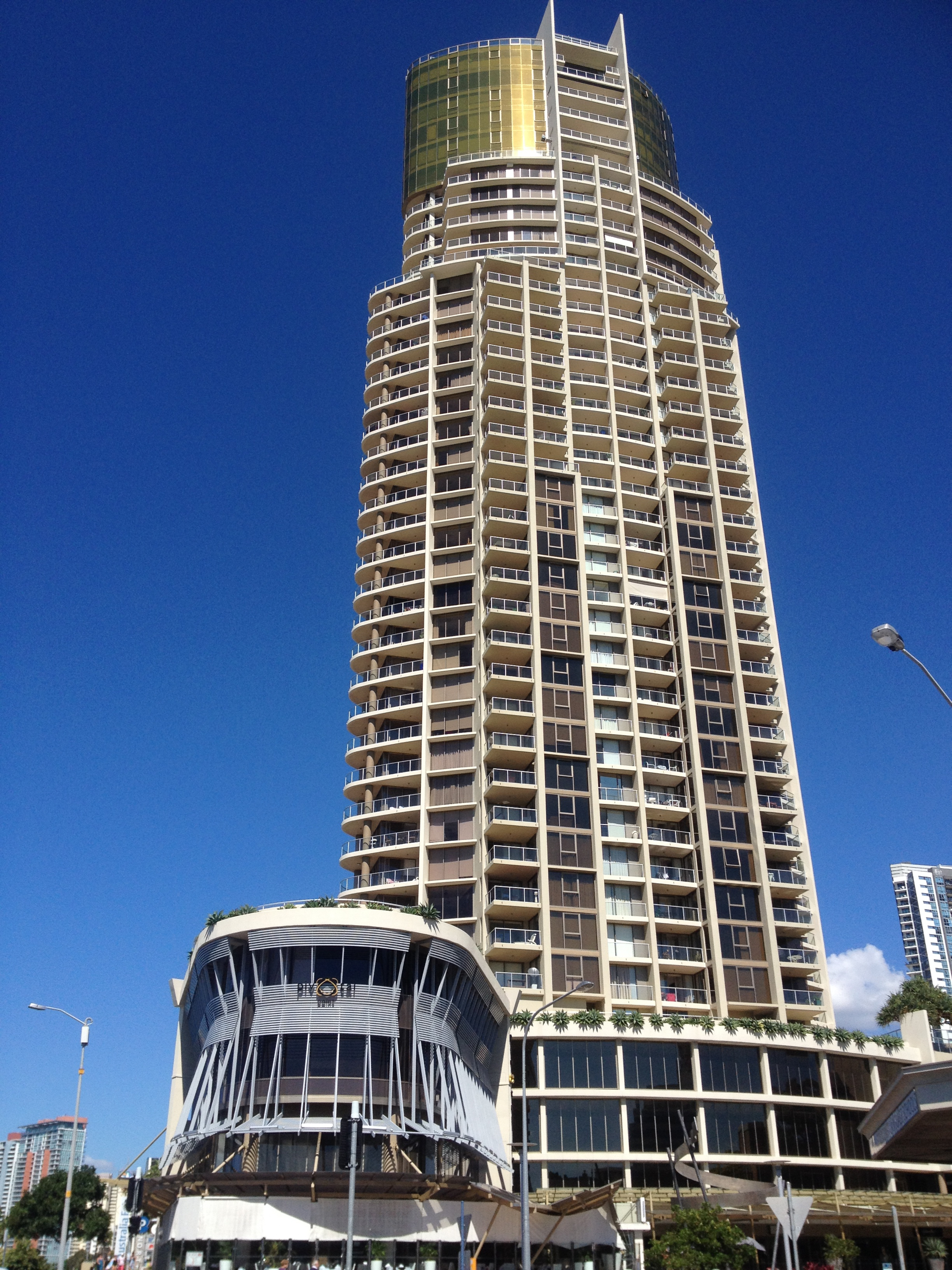 50 Marine Parade, Southport, Queensland, Australia